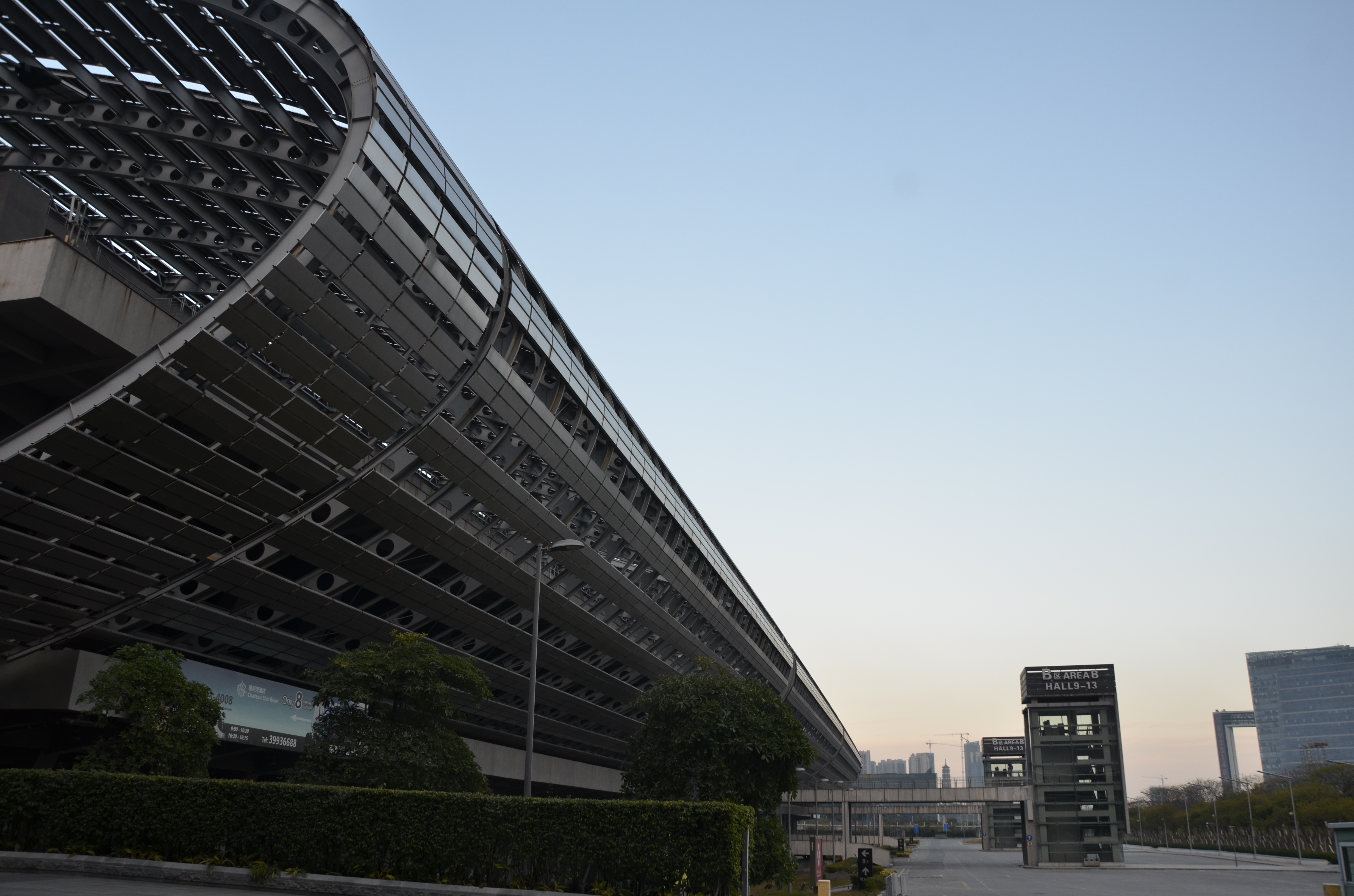 Area B of China Import and Export Complex